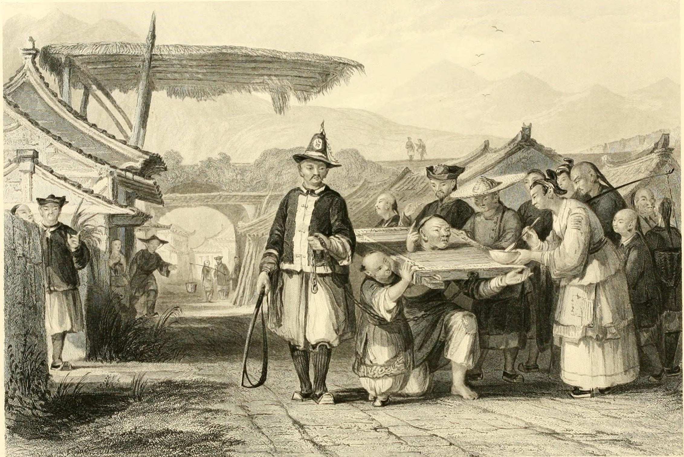 Punishment of the tcha or cangue in Ting-hai, China.